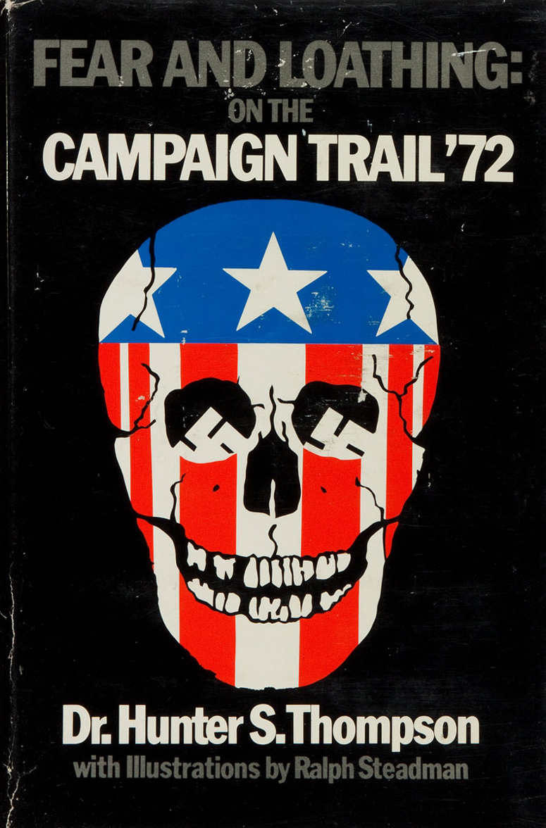 First edition dust jacket cover of gonzo journalist Hunter S. Thompson's 1973 book Fear and Loathing on the Campaign Trail '72. The book conveys Thompson's experience covering the 1972 US presidential election, particularly the (ultimately unsuccessful) campaign of Democratic nominee George McGovern.